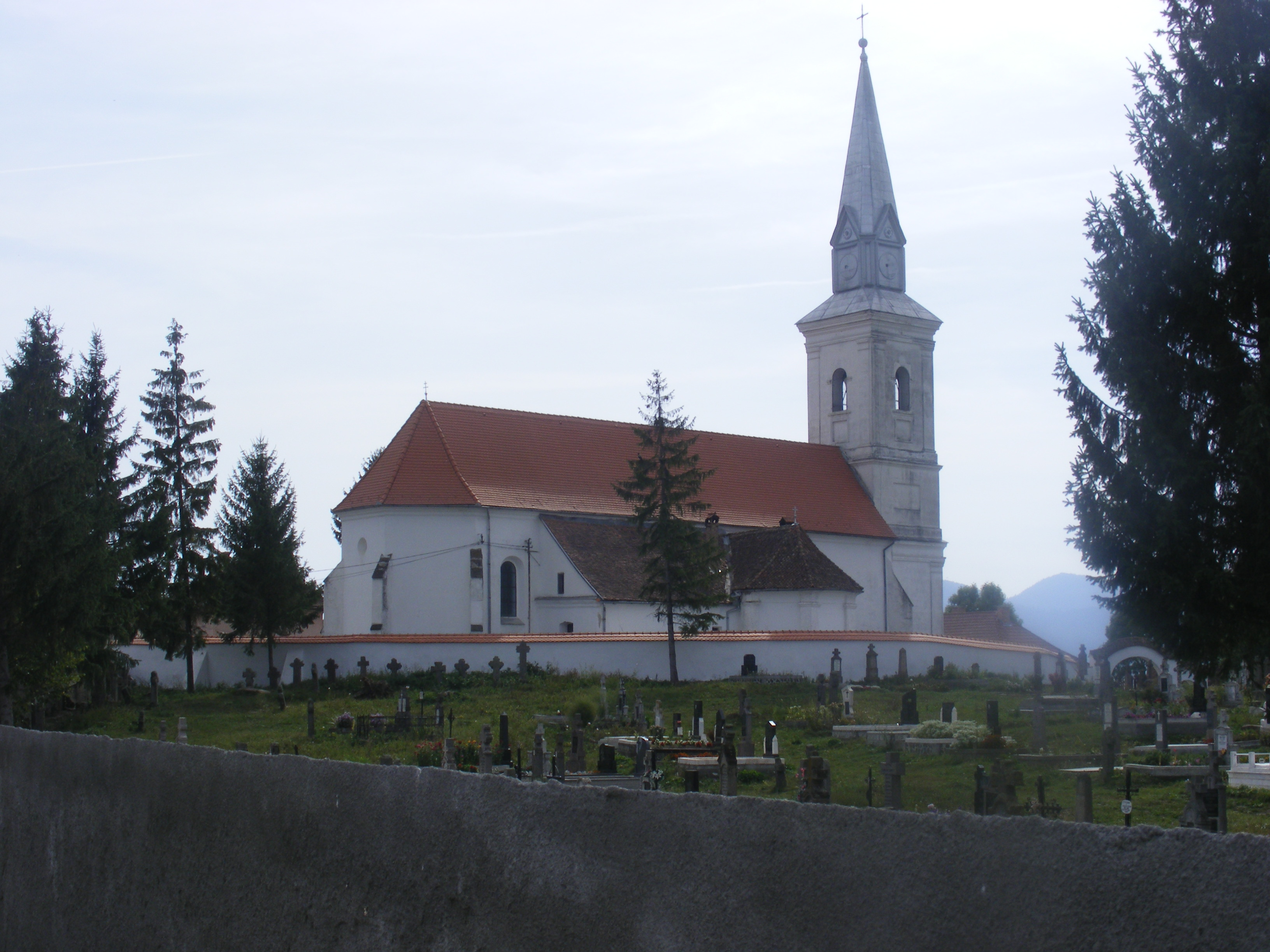 Saints Simon and Jude Romano-catholic church in Csatószeg (Cetăţuia), Romania, Harghita County.